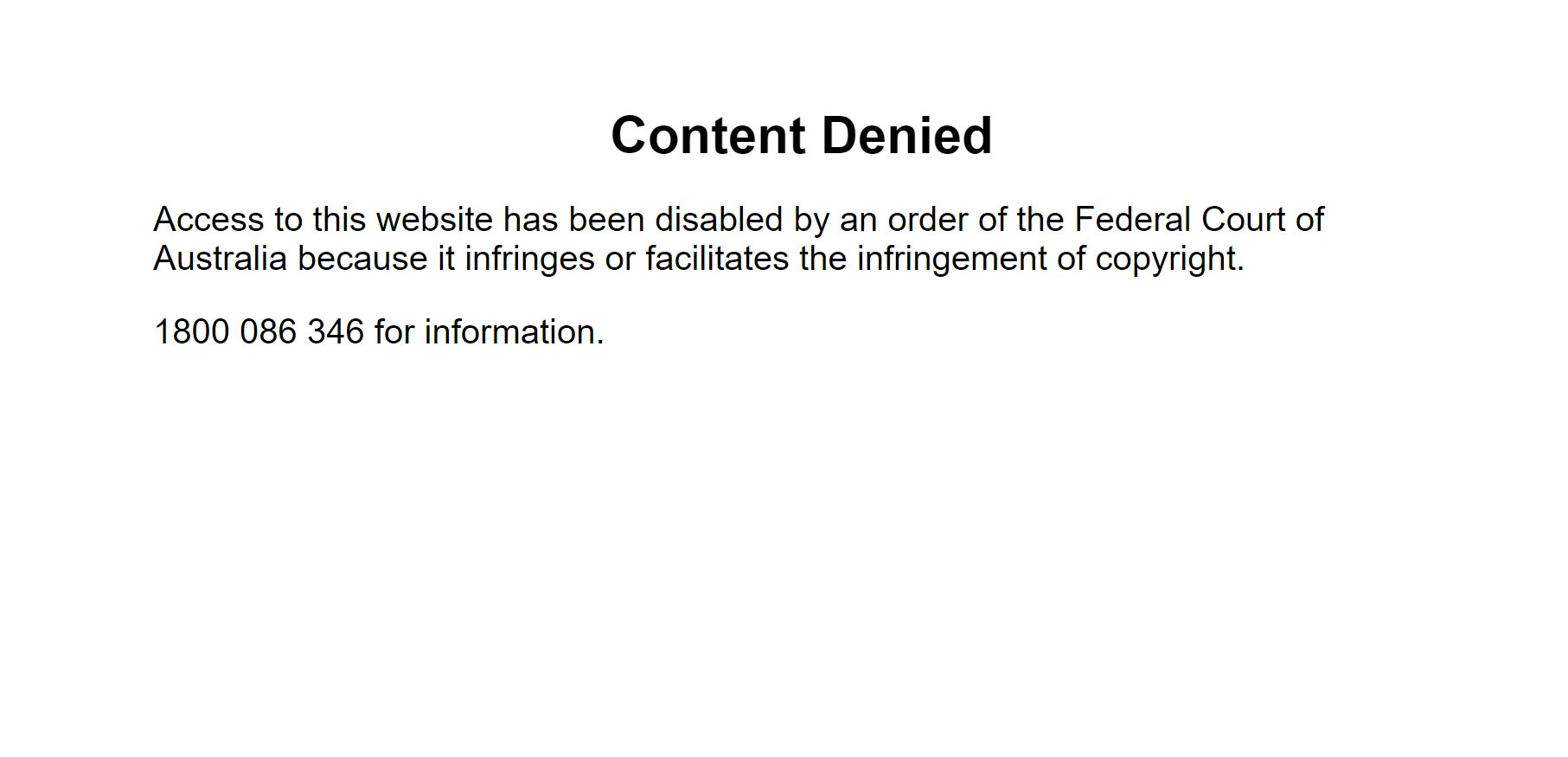 Telstra_Blocking_TPB